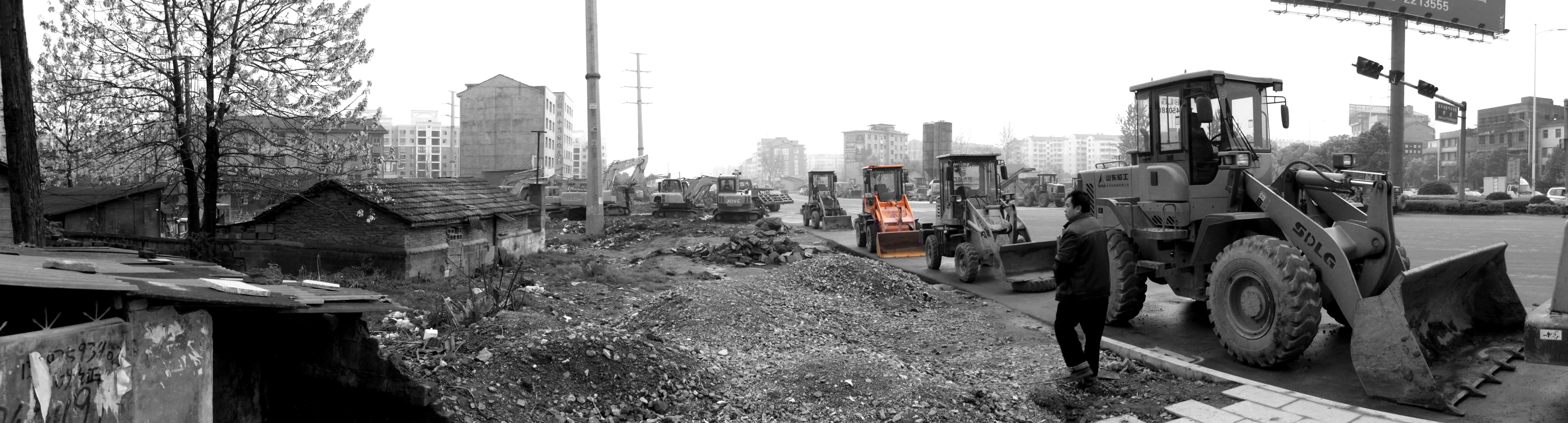 Taken from East Yingfeng Road (Camera pointed southward)